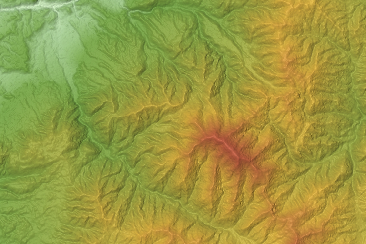 Around Mount Ena (Ena-san) in Gifu and Nagano Prefectures, Honshu, Japan.